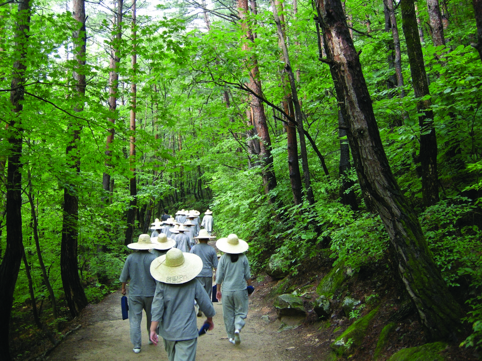 Samhwa temple in South Korea (templestay)